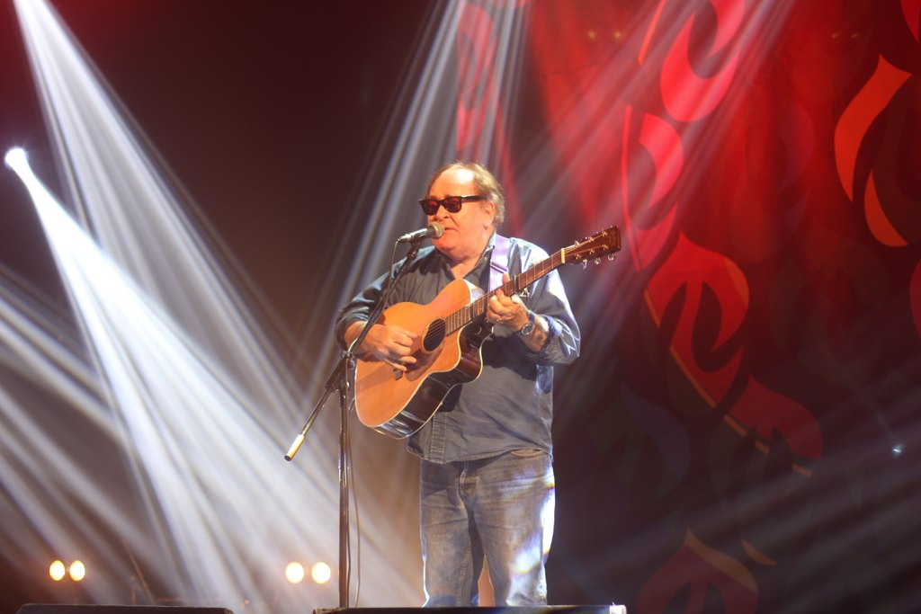 Taken at Gwyl Hanner Cant, a gig to celebrate 50 years of Cymdeithas yr Iaith Gymraeg (the Welsh Language Society).